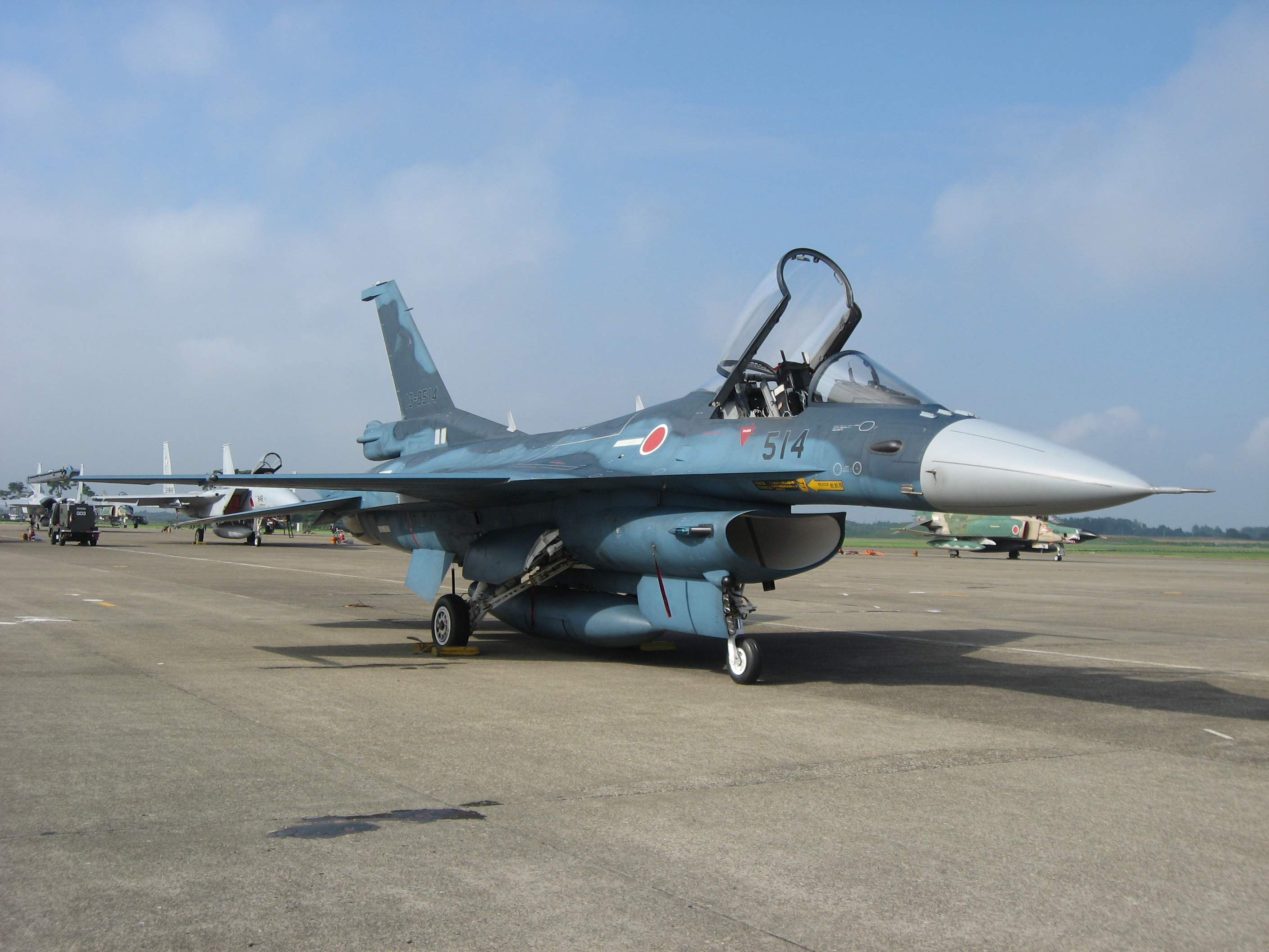 F-2A (514) of 3 Sqn on static display at Hyakuri Air Base Open Day 2007.Canon Digital IXUS 800 IS